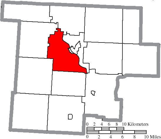 Map of the municipal and township boundaries of Morgan County, Ohio, United States, as of the 2000 census, with the location of Malta Township highlighted. Township borders are shown only in unincorporated areas in order to differentiate incorporated and unincorporated areas more clearly.